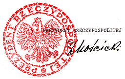 Signature of President Moscicki